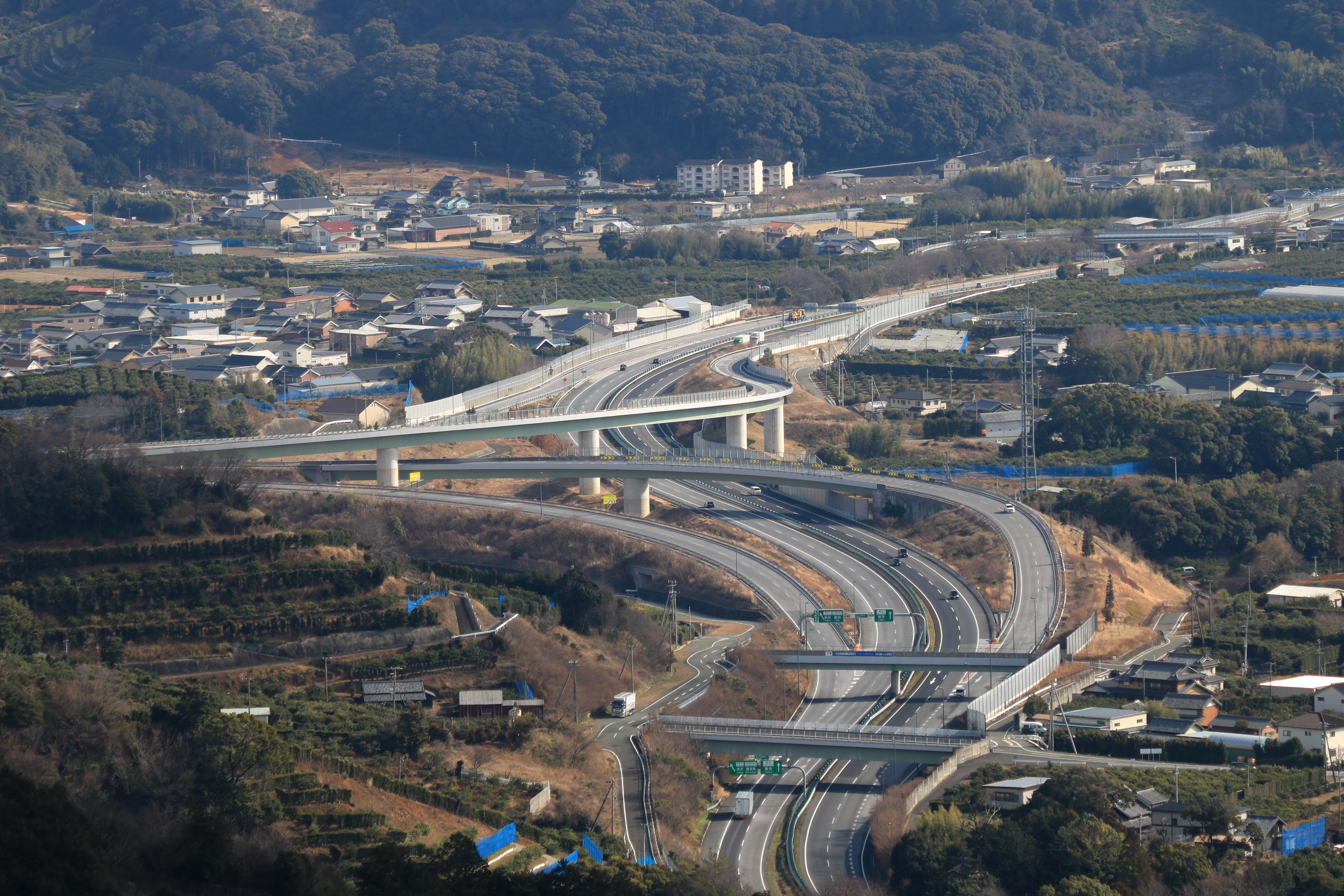 Mikkabi Junction of Tōmei Expressway and Shin-Tōmei Expressway seen from Mount Ubu in Kita-ku, Hamamatsu, Shizuoka Prefecture, Japan.